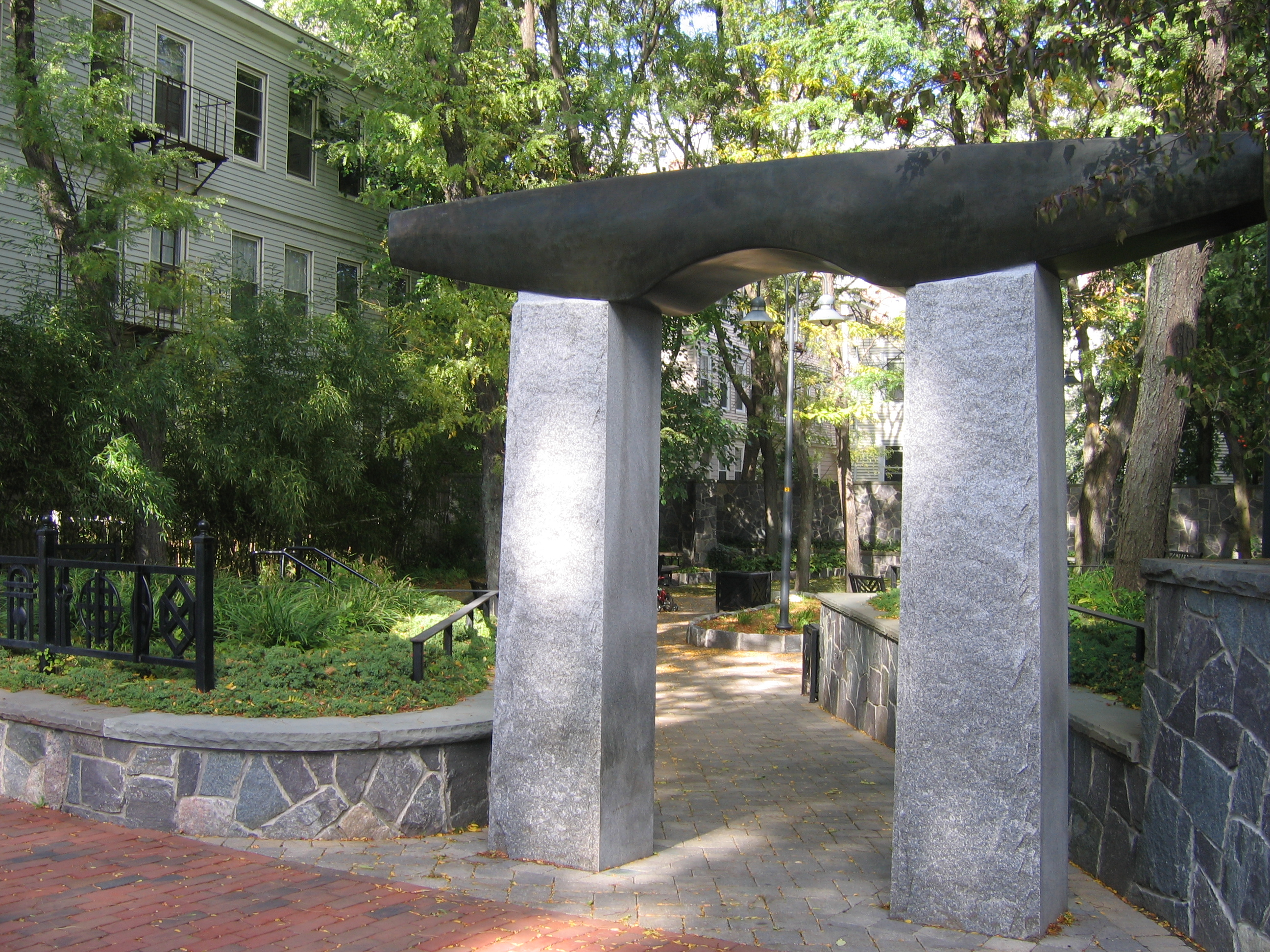 entrance of public park